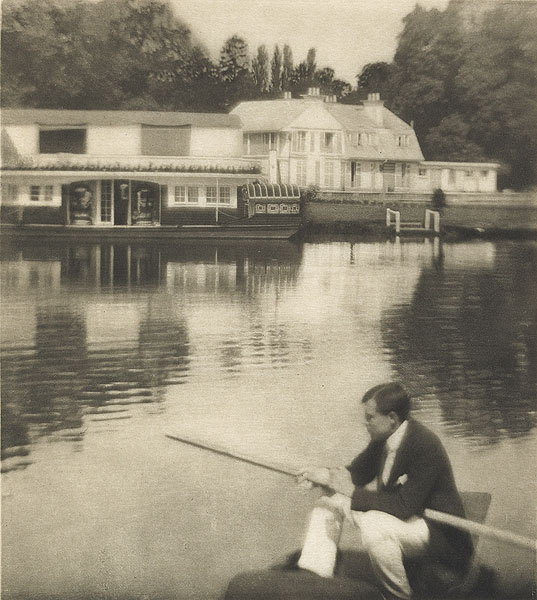 The White House, Camera Work XXXII, 1910